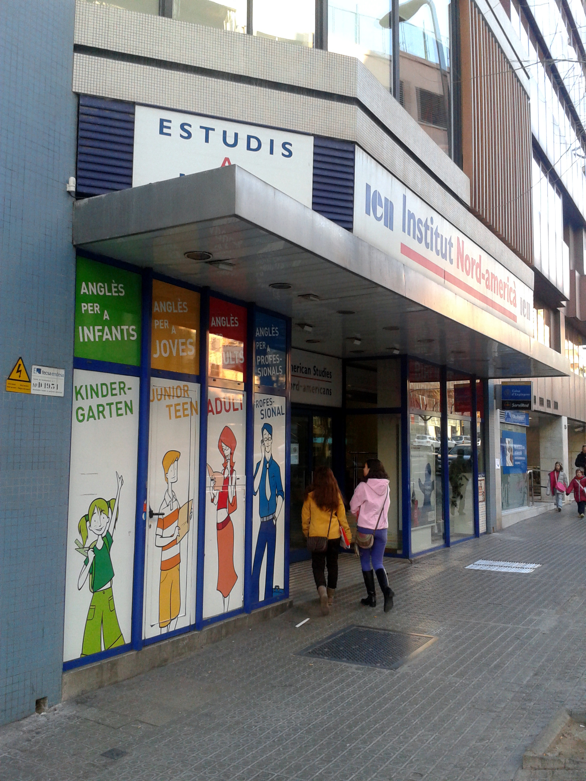 Institut d'Estudis Nord-americans Entrance